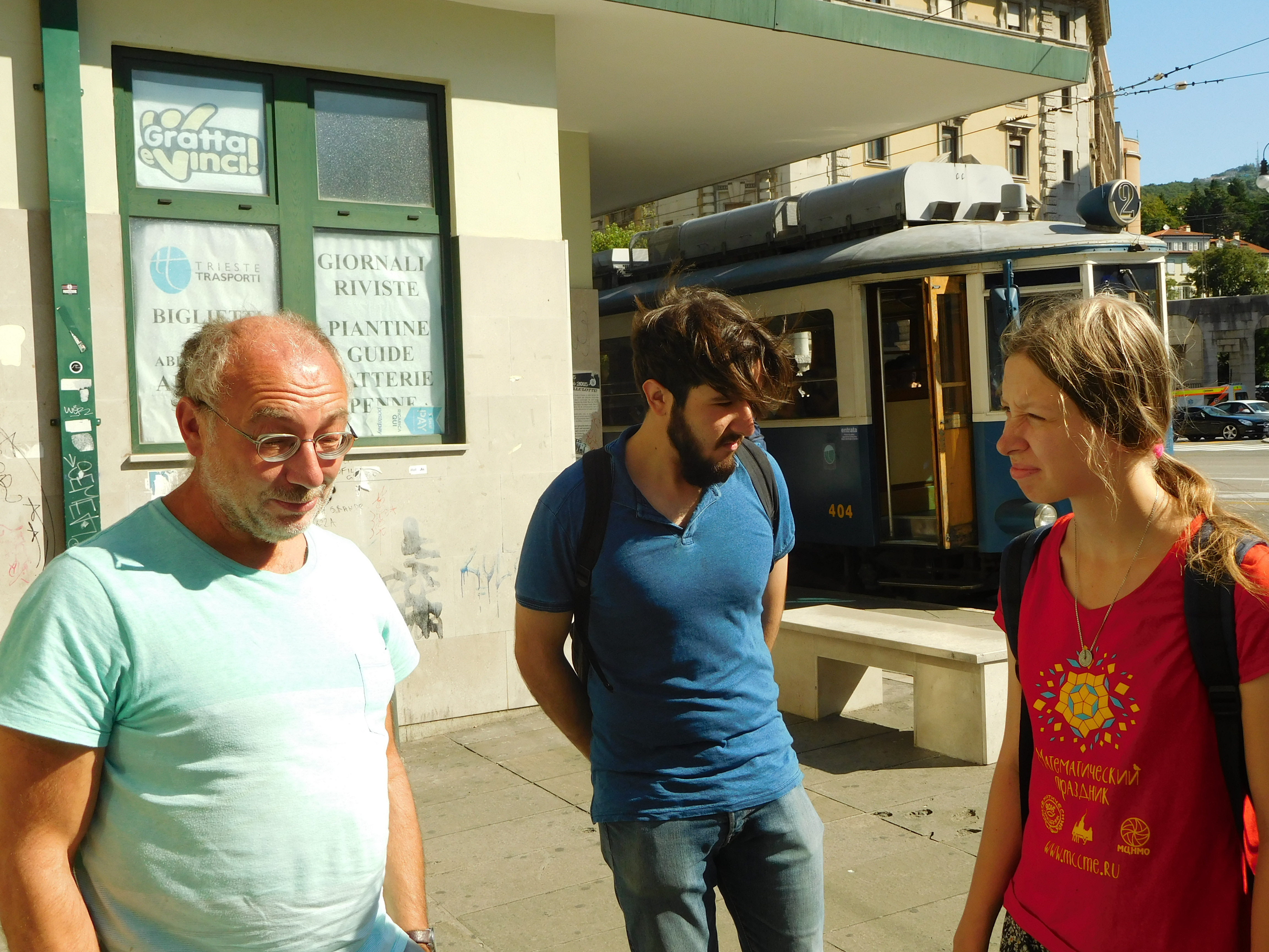 mathematician Alexander Beilinson (left) with his students